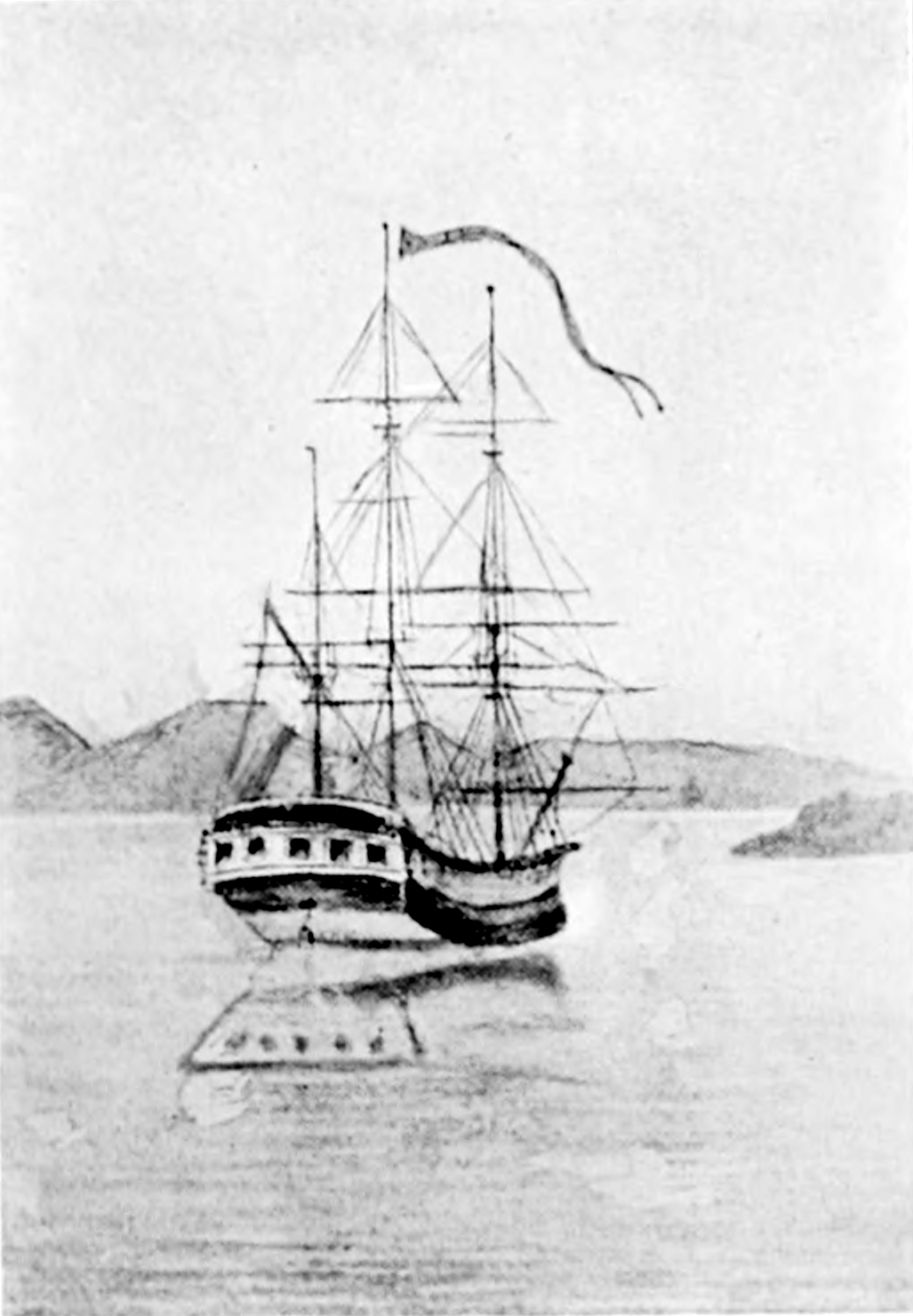 Picture of the Columbia Rediviva from the book Centennial History of Oregon